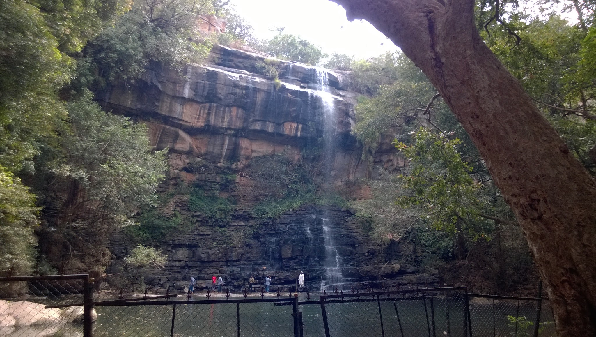 Mallela theertham waterfalls in the month of February